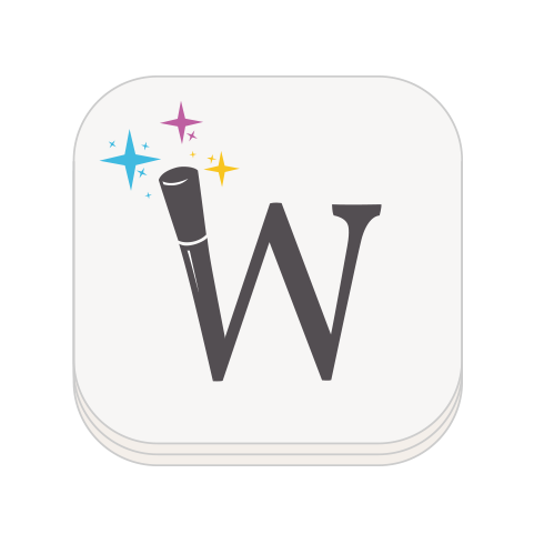 WikiWand Logo